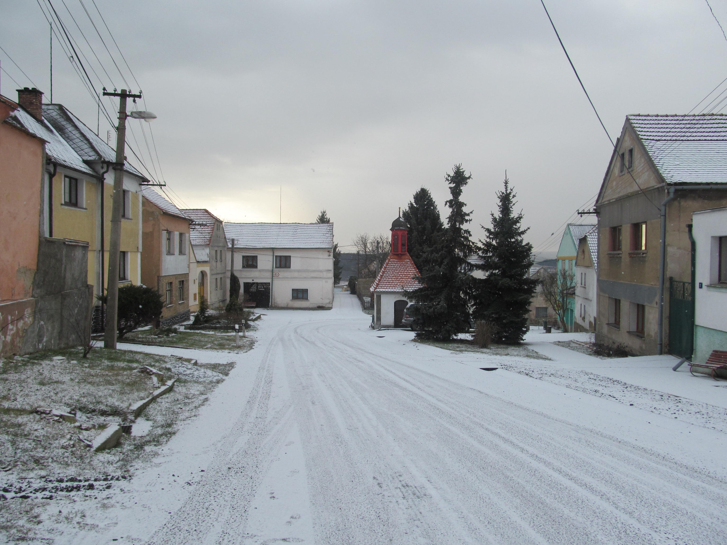 Village square in Chraberce